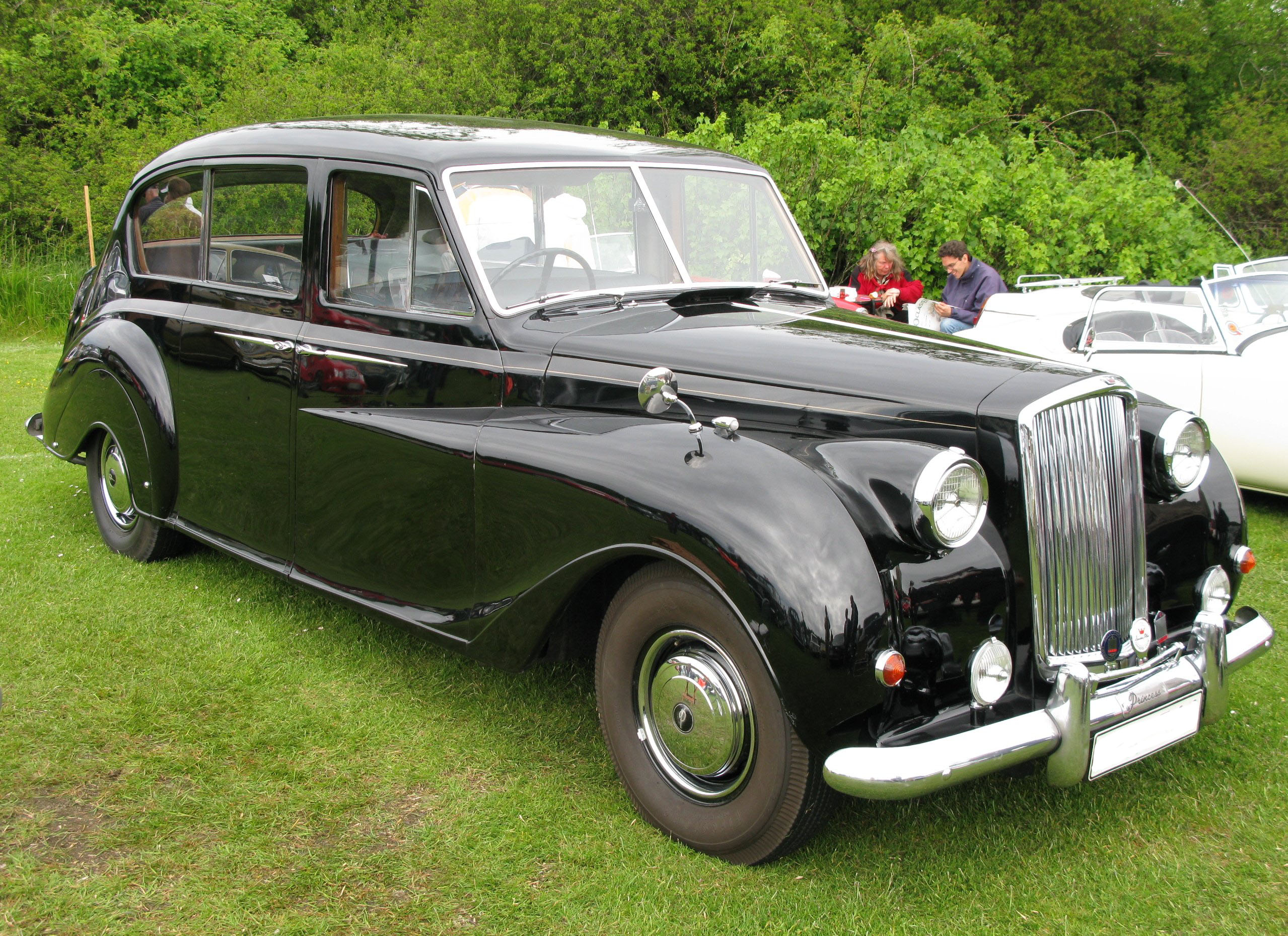 1961 Vanden Plas Princess 4-litre Limousine. Event: Tjolöholm Classic Motor 2009